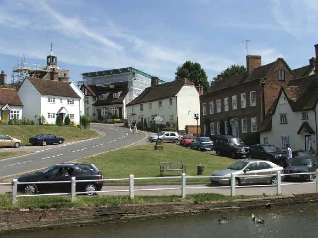 Finchingfield